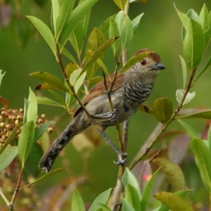 Rufous-capped Antshrike (Male) at Bragança Paulista - SP - Brazil